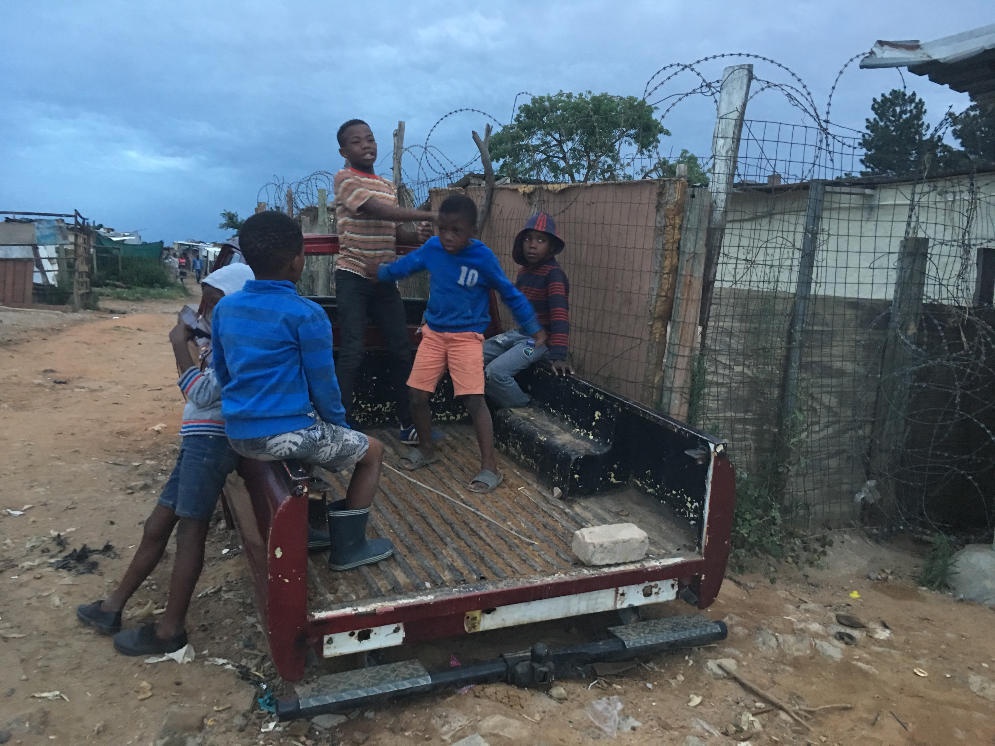 This is an image with the theme "Play" from: South Africa